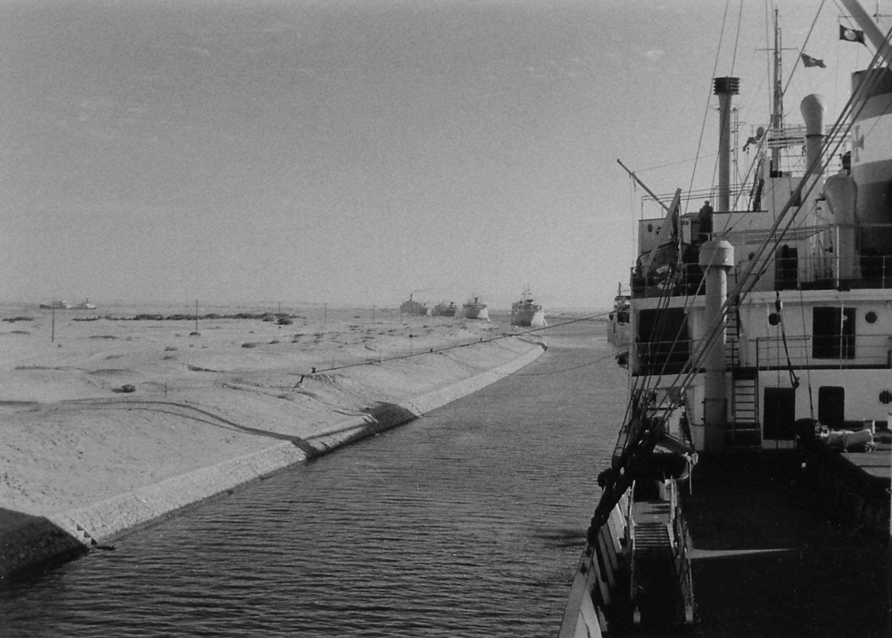 In the Suez Canal the convoy is waiting in the queue until the toward coming traffic has passed.